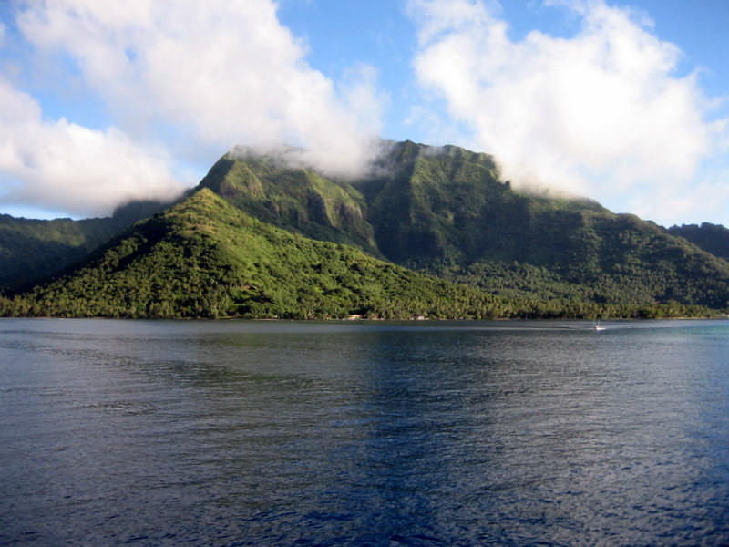 Photo taken by Ian Sewell, July, 2006. Arriving at the port in Moorea.